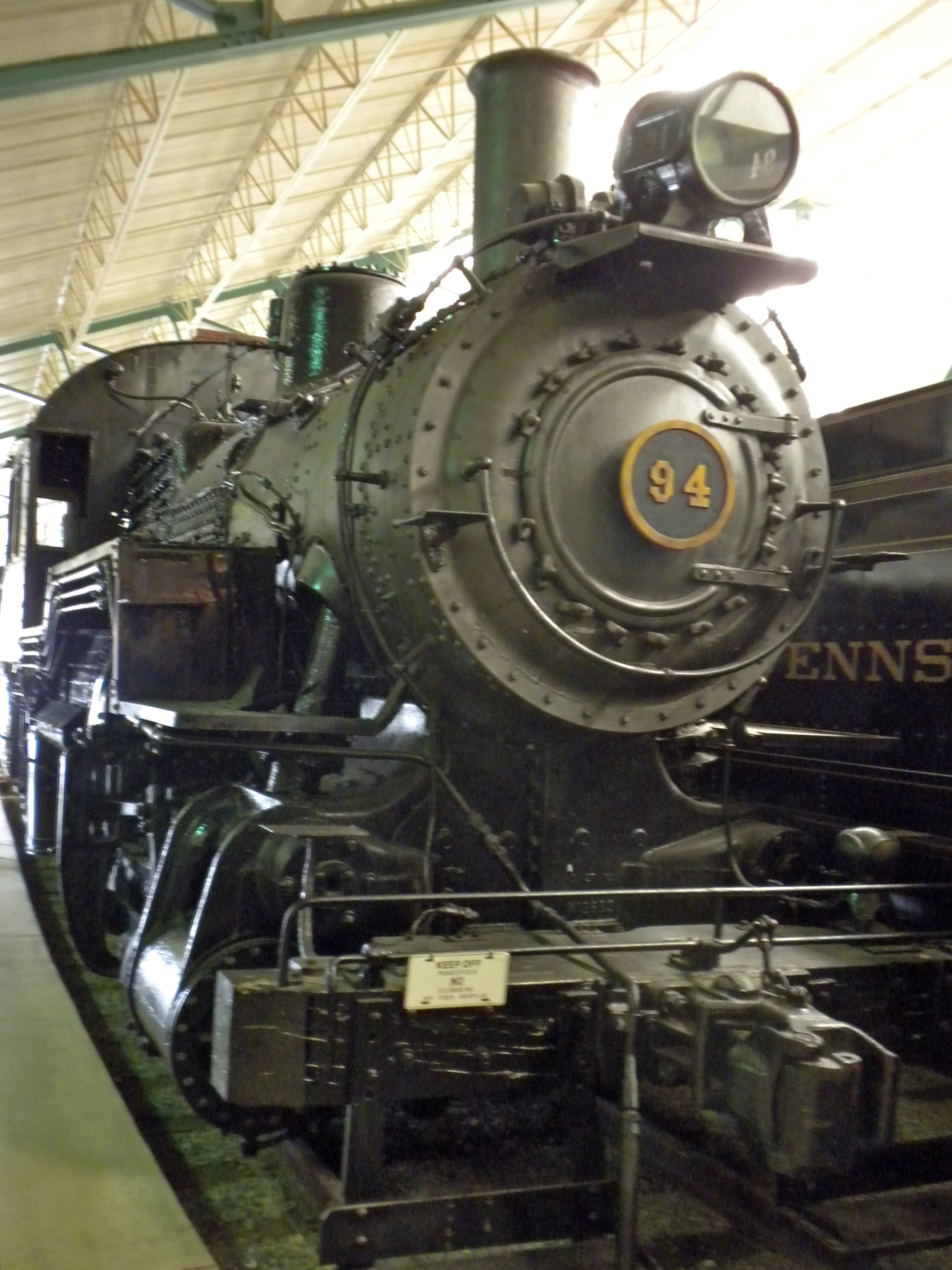 PRR steam locomotive No. 94 at the Railroad Museum of Pennsylvania, east of Strasburg, PA. On NRHP since 1979. Built at Juniata shops in 1917 0-4-0 PRR class A5s.